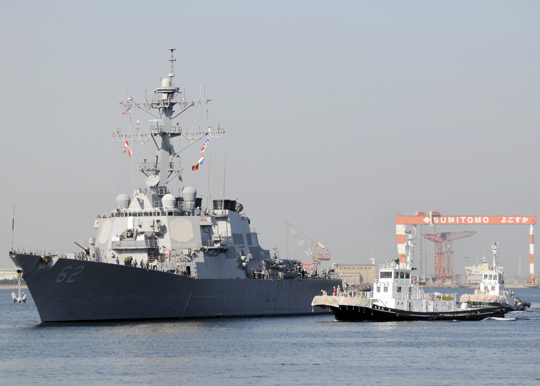 YOKOSUKA, Japan (Feb. 12, 2009) The tugboats Azuma and Shima guide the Arleigh Burke-class guided-missile destroyer USS Fitzgerald (DDG 62) toward her berth at Fleet Activities Yokosuka. Fitzgerald is one of seven Arleigh Burke-class destroyers that comprise Destroyer Squadron (DESRON) 15, which serves in the western Pacific Ocean, Indian Ocean and the Persian Gulf as part of Battle Force Seventh Fleet. (U.S. Navy photo by Mass Communication Specialist 3rd Class Bryan Reckard/Released)